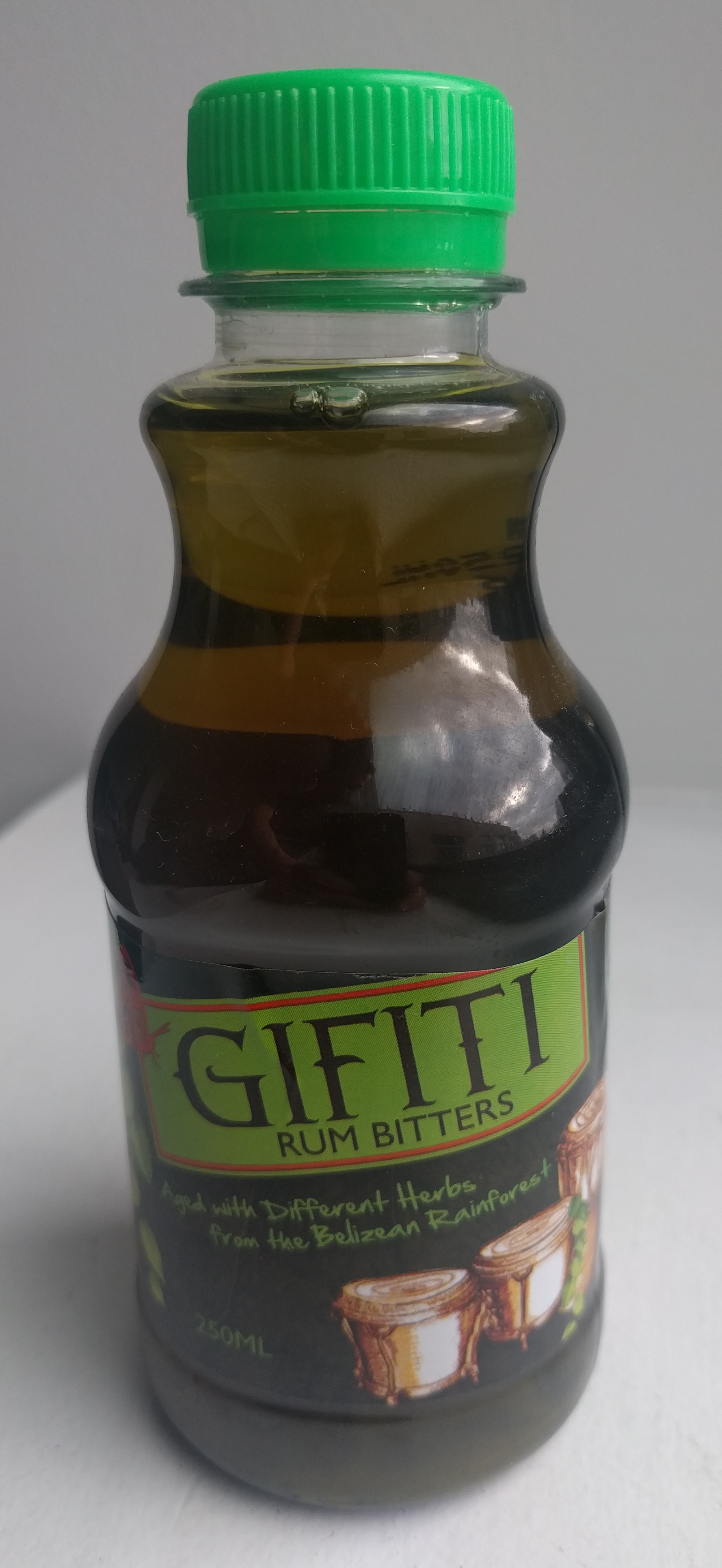 Bottle of gifiti bitters, made by Travellers Liquors. 250 ml, 14% alcohol by volume. Label reads "Gifiti Rum Bitters: Aged with Different Herbs from the Belizean Rainforest"